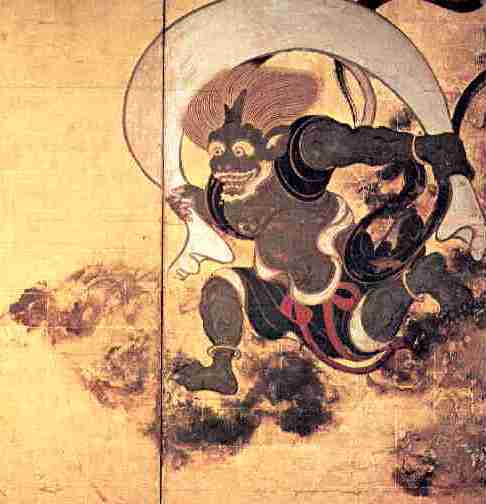 Japanese wind god Fujin. 17th century.